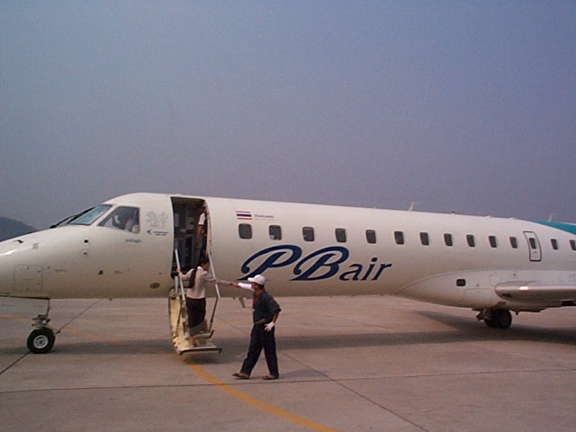 Embraer ERJ145LR aircraft of PBair, an airline of Thailand, parking at Luang Prabang international airport in the Lao PDR.